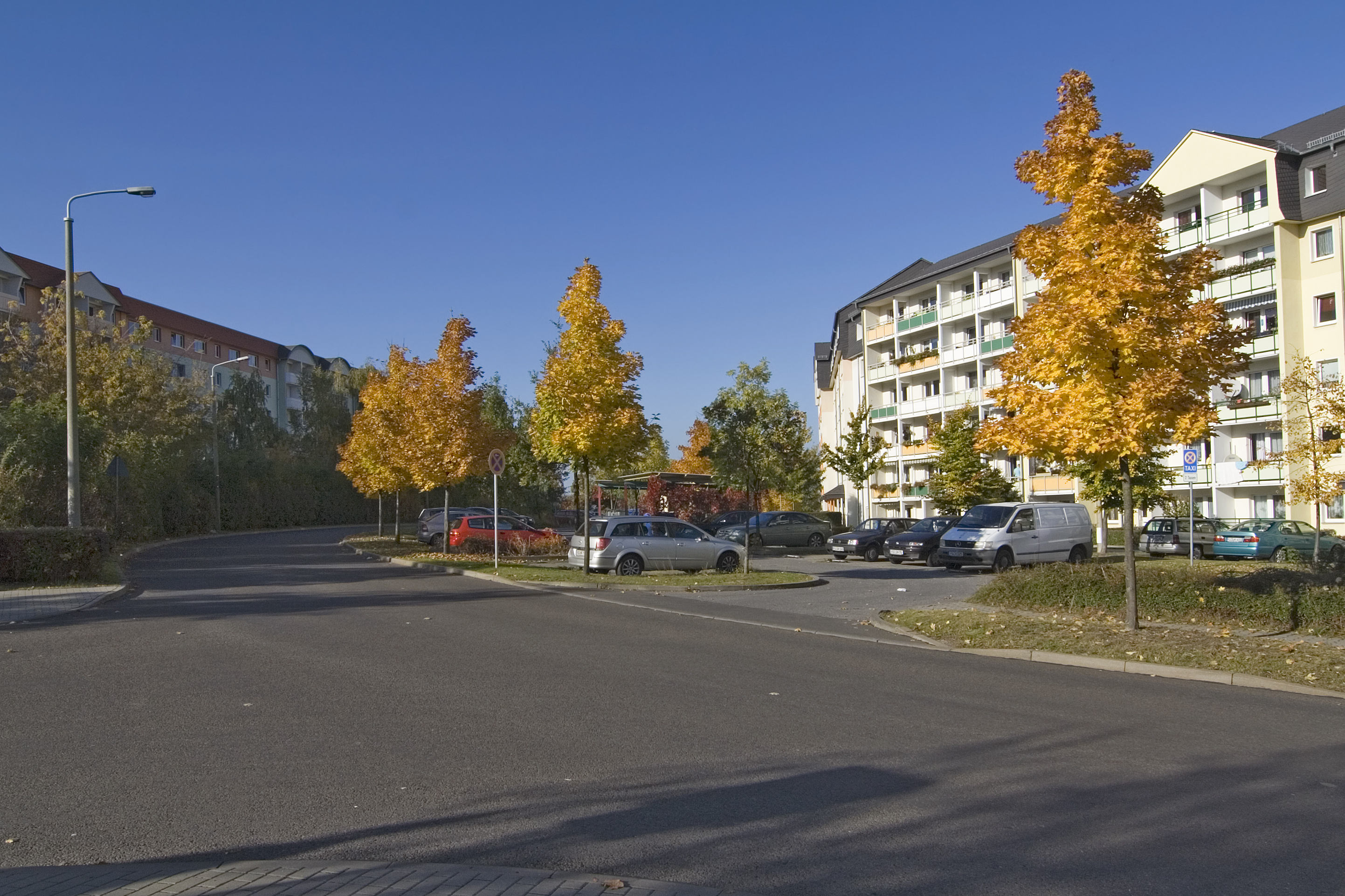 Freiberg-Friedeburg